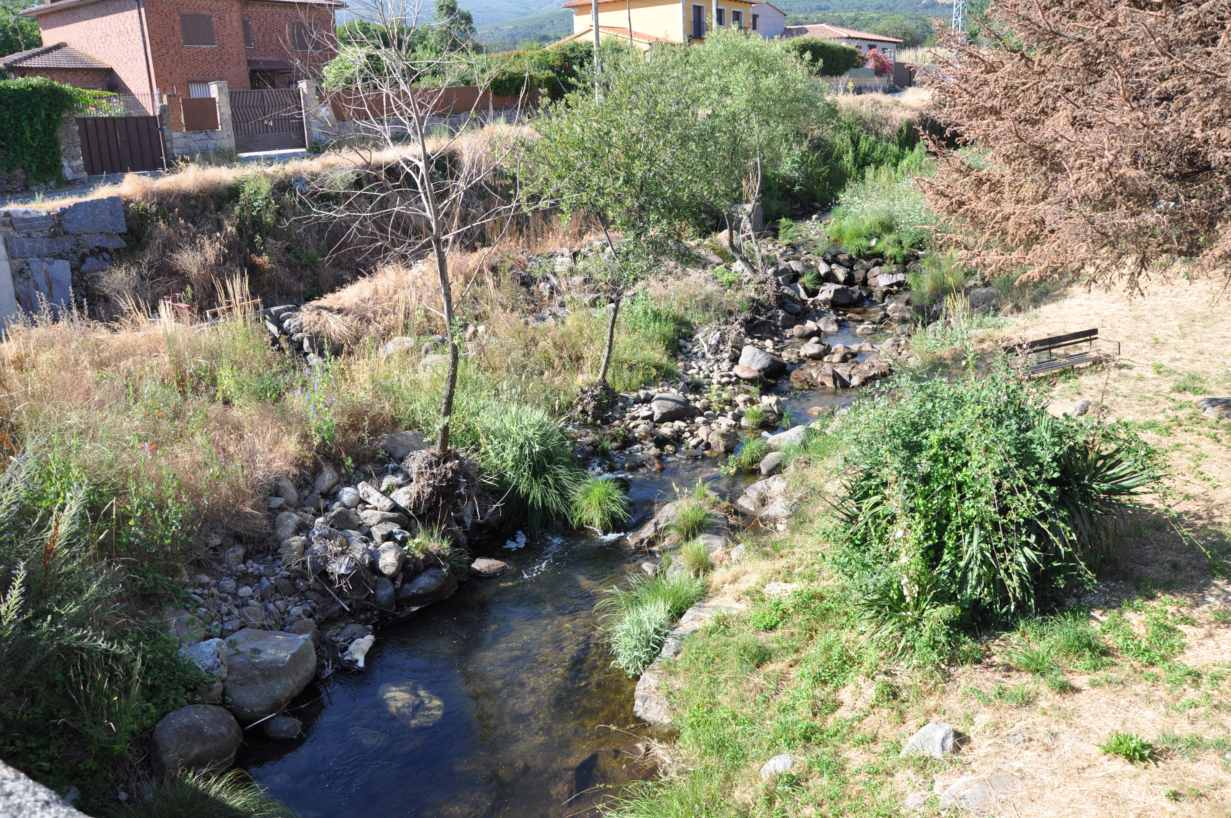 Becedillas River in Becedas, Ávila, Spain